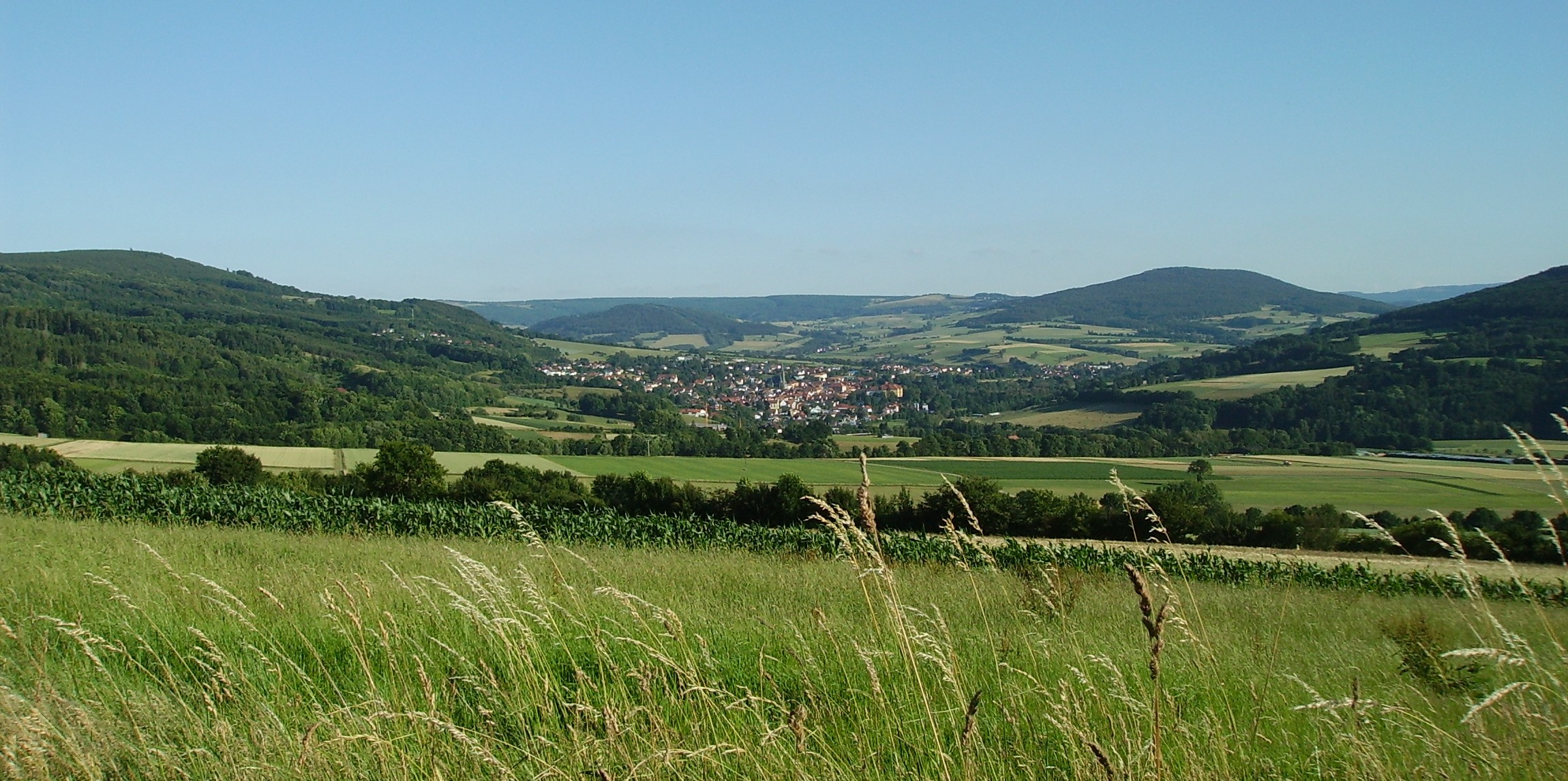 Landscape of the Rhön mountains in the area of Tann